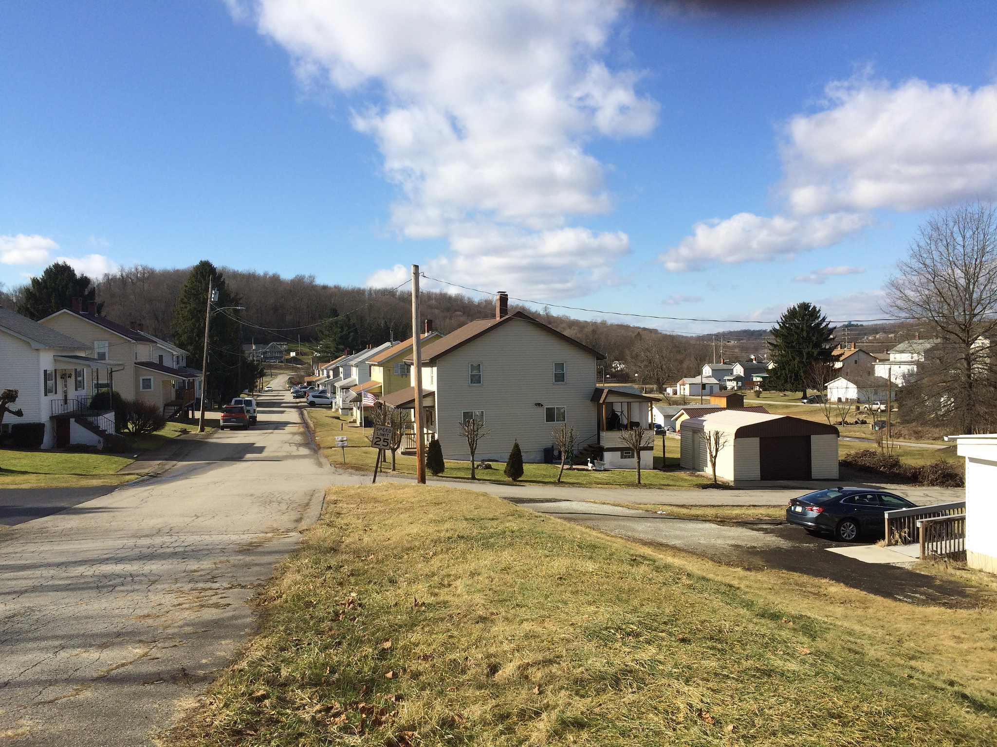 Houses on former coal town, site of Crows Nest underground bituminous coal mine